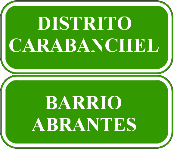 IndicadorBarrioAbrantes